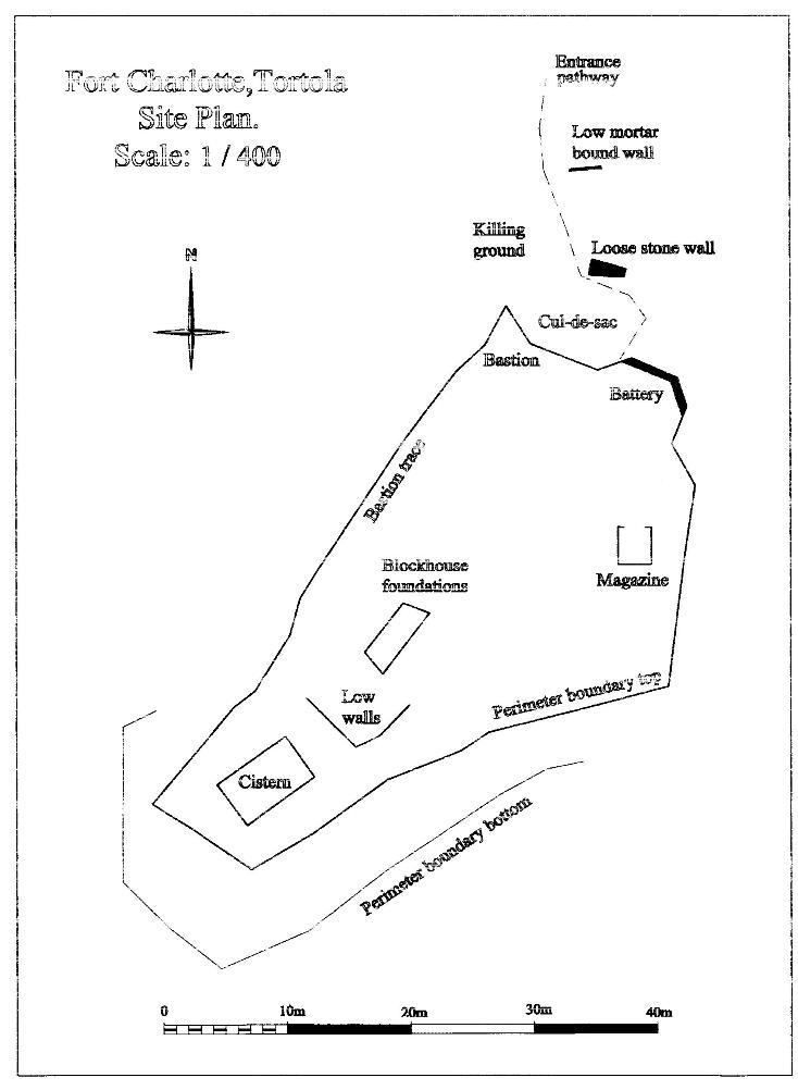 A rough survey plan of the remains of Fort Charlotte, Tortola, British Virgin Islands